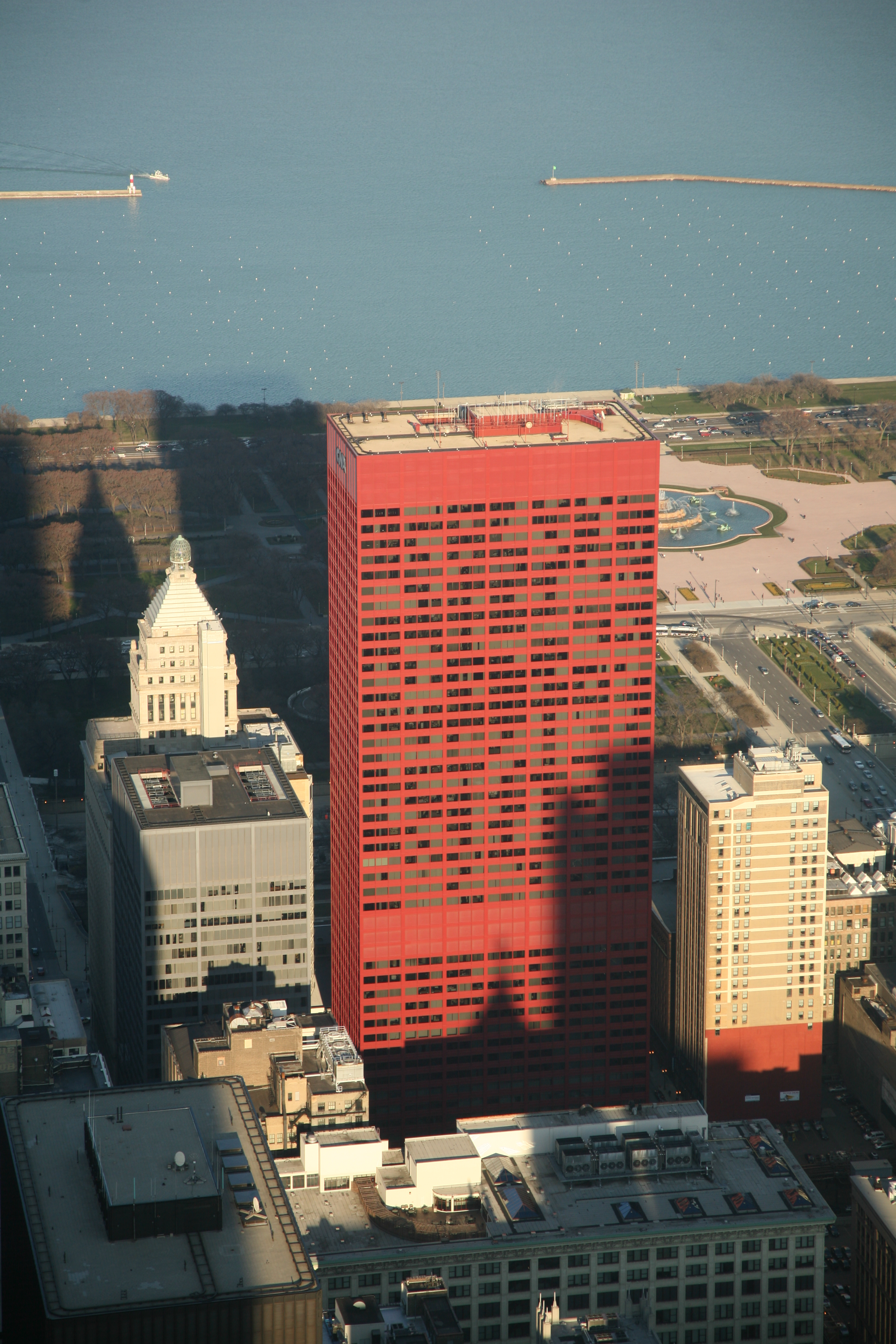 CNA Center in Chicago. Image taken from the Willis Tower observation deck.